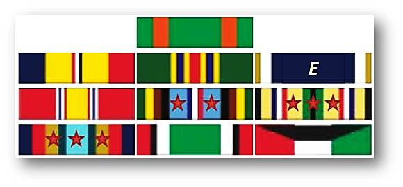 Navy medals and ribbons, mounted on a three row rack.